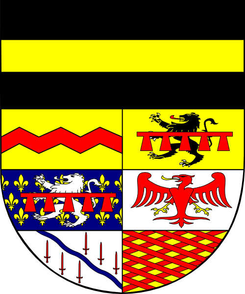 Coat of arms (shield only) of Johann Moritz Gustav von Manderschied - Blankenheim, bishop of Wiener Neustadt, Austria (1720 - 1733), archbishop of Prague (1733 - 1763). Arms used in Prague.